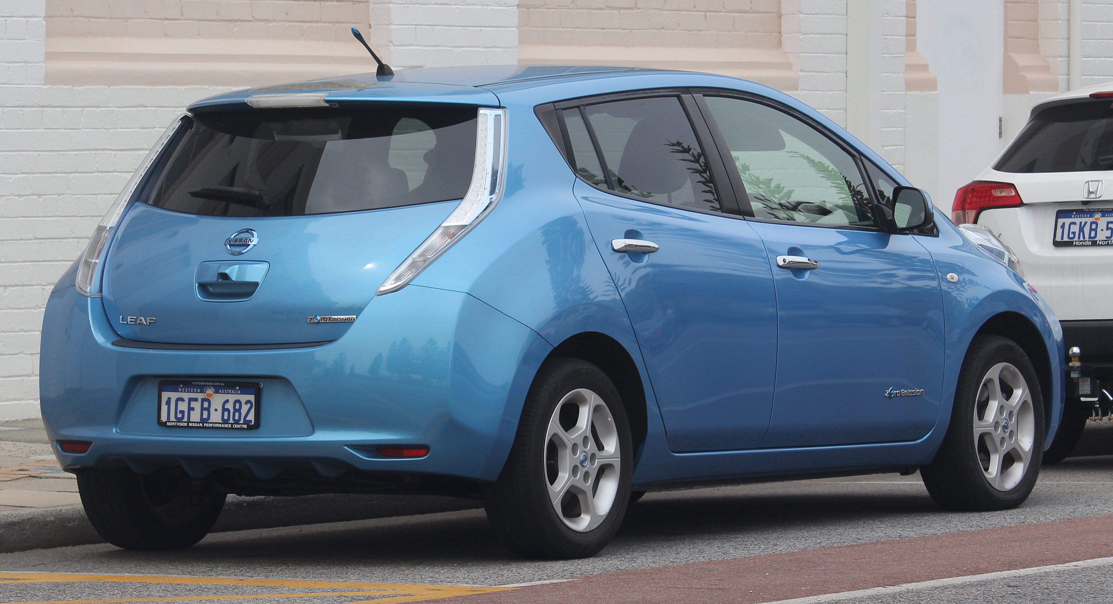 2017 Nissan LEAF (ZE0 MY17) hatchback. Very rare on our roads in Australia, these do not sell well. Photographed in Fremantle, Western Australia, Australia.